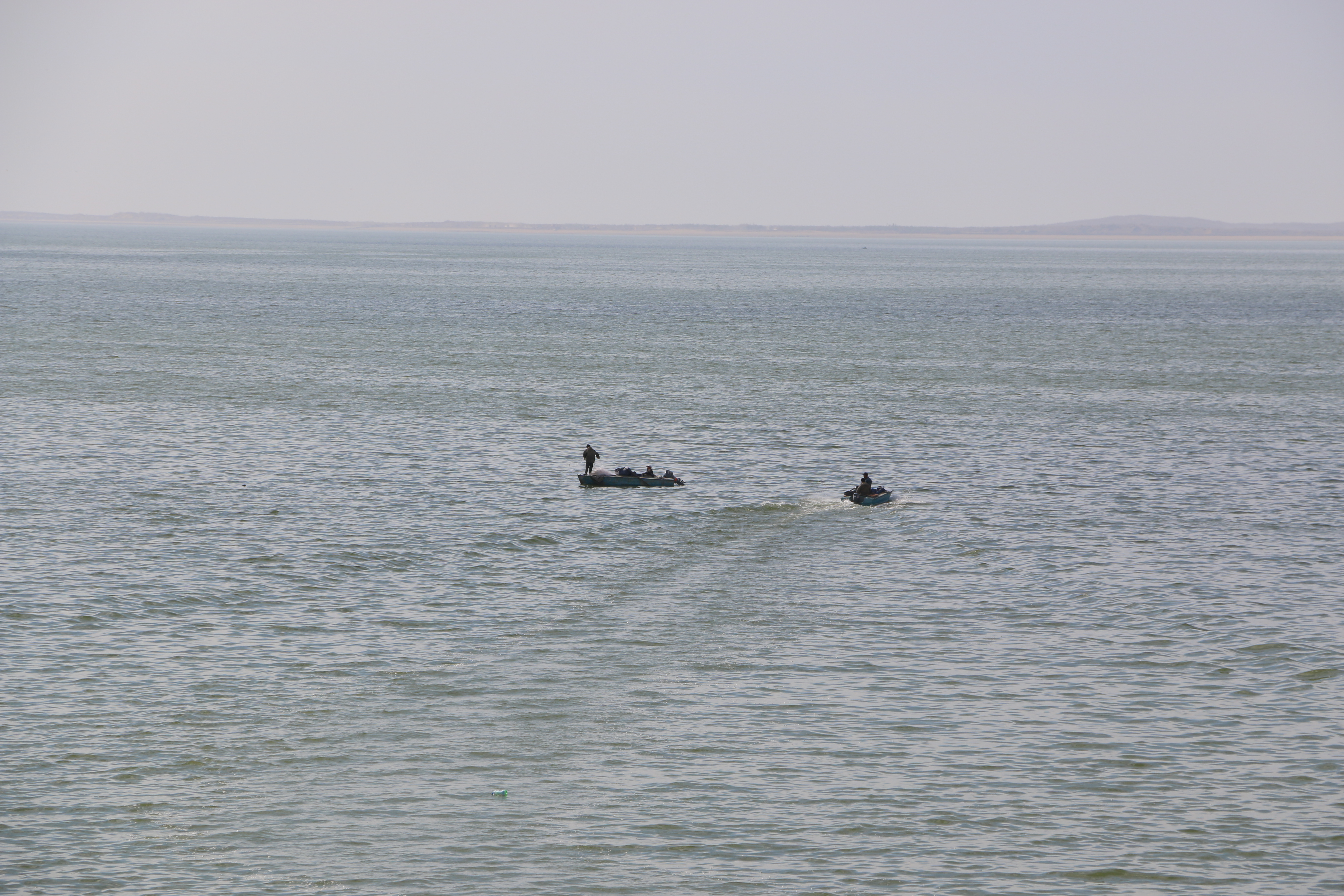 Shardara Reservoir